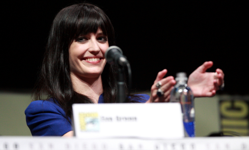 Eva Green on the 300: Rise of an Empire panel at San Diego Comic-Con International 2013.